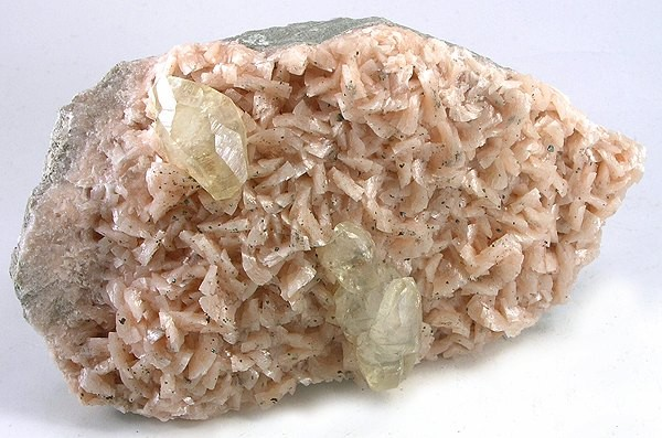 Calcite, Dolomite Locality: Ben Hogan Quarry (Black Rock Quarry), Black Rock, Lawrence County Zinc District, Lawrence County, Arkansas, USA (Locality at ) Gemmy, silky crystals of calcite on salmon-colored dolomite, recently mined in Arkansas. The light-golden calcites are nicely transparent, lustrous, and measure to 2.6 cm. 14.9 x 8.5 x 3.7 cm